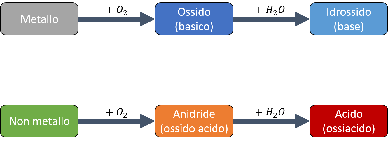 formation of chemical compounds that depend on acid and basic oxides with a simple diagram showing the origins